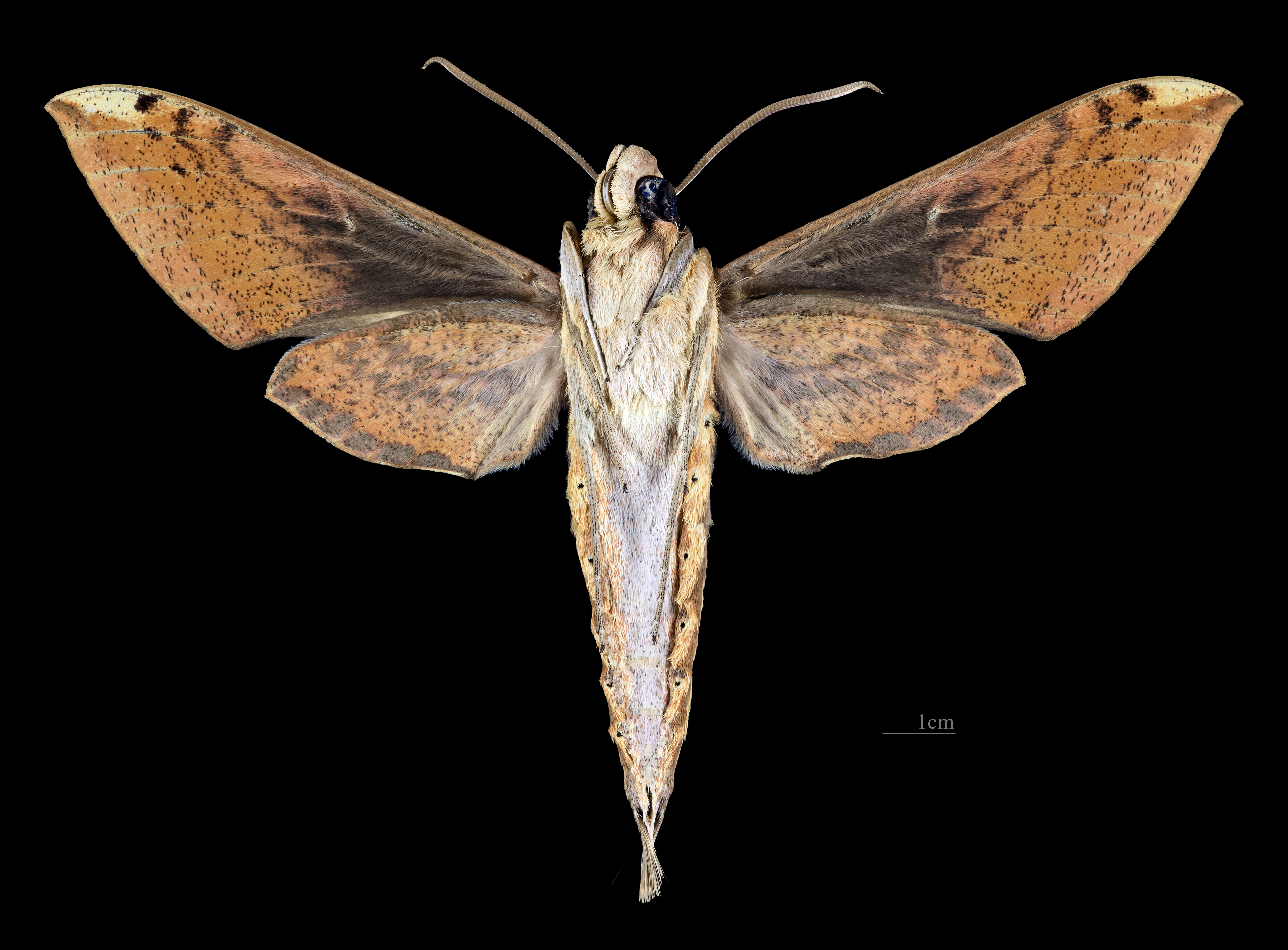 Xylophanes sarae - △ Ventral side Collection of the Mathematician Laurent Schwartz